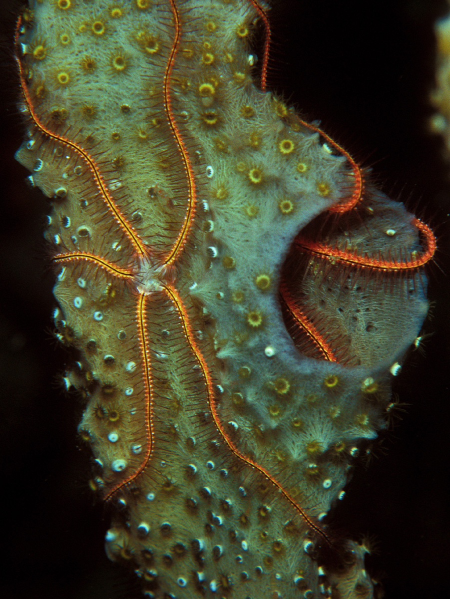 These nocturnal echinoderms are called Sponge Brittle Stars. They are very common in the Caribbean. They are so-named because they are found exclusively either inside or outside living sponges. This species had been spawning the day that this picture was taken, so they were extremely active and colorful that night.